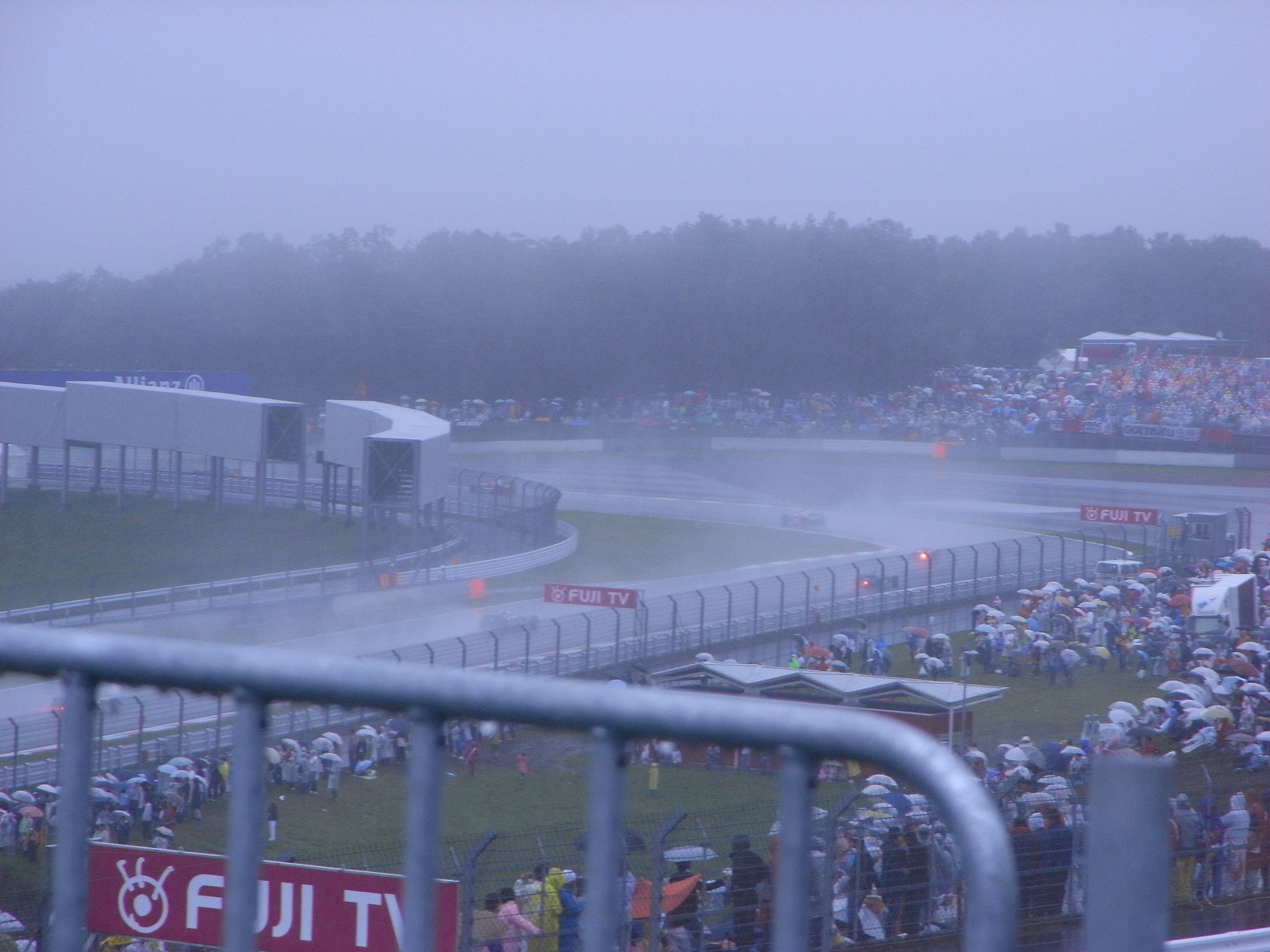 2007 Japanese Grand Prix